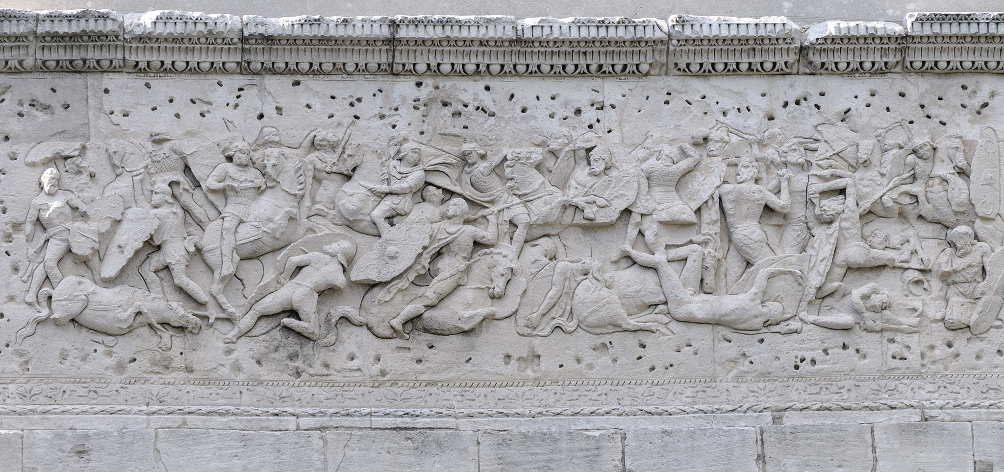 Detail of a sculpted panel on the Triumphal Arch of Orange.